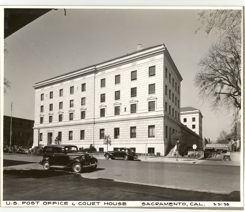 The United States Post Office, Courthouse and Federal Building — in downtown Sacramento, California. The 'Federal Building' was designed by architects Starks & Flanders, in a simplifiied French Renaissance Revival style, and was completed in 1933. The 'U.S. District Court for the Northern District of California' met here until the creation of the Eastern District (court) in 1966, which it then began housing. The 'Federal Building' is still in use by the 'U.S. District Court for the Eastern District of California'. The Sacramento 'U.S. Post Office, Courthouse and Federal Building' is on the National Register of Historic Places (1938 photo).